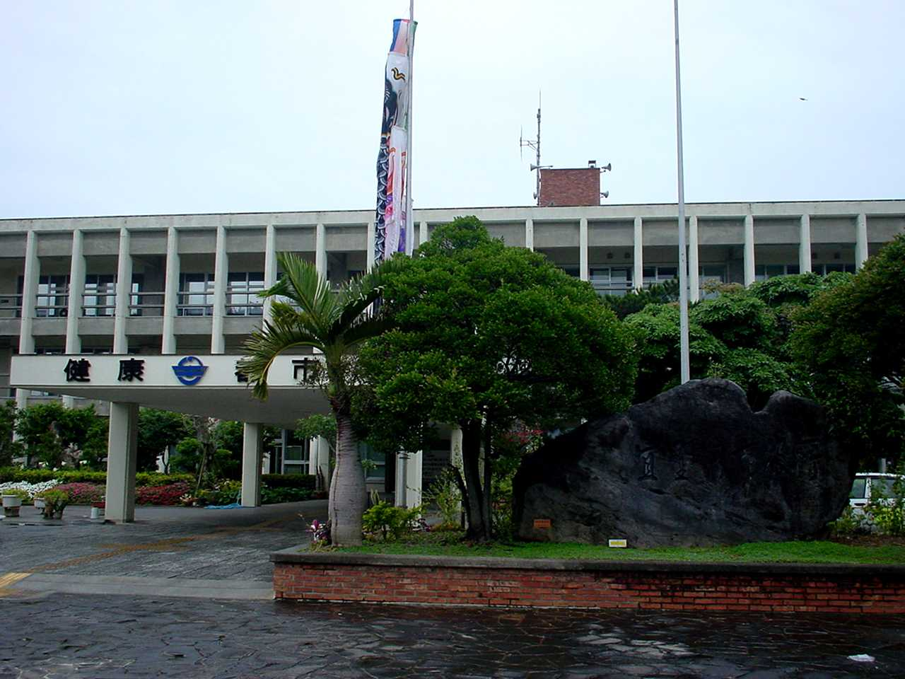 Ginowan City Hall in Okinawa, Japan.